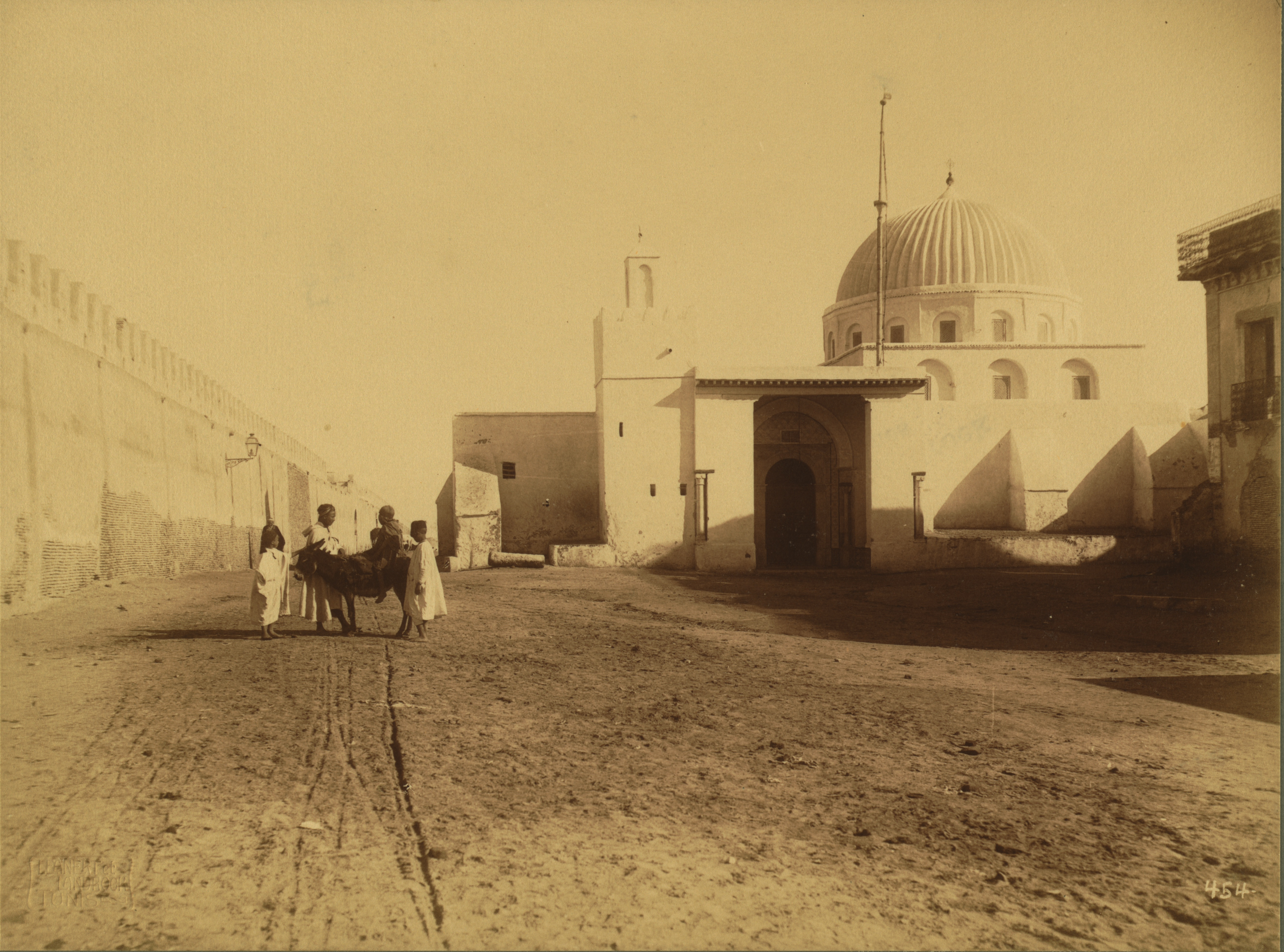 Photo of a A zaouia next to the city wall of Kairouan in Tunisia